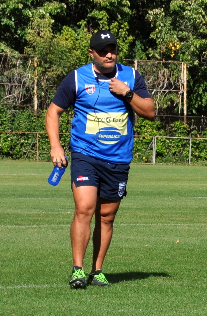 Romanian former rugby union international Marcel Mihalache, assistant coach of CSA Steaua București rugby club seen during a match against CSM Baia Mare in Round 5 of Romanian Rugby SuperLiga in September 2017